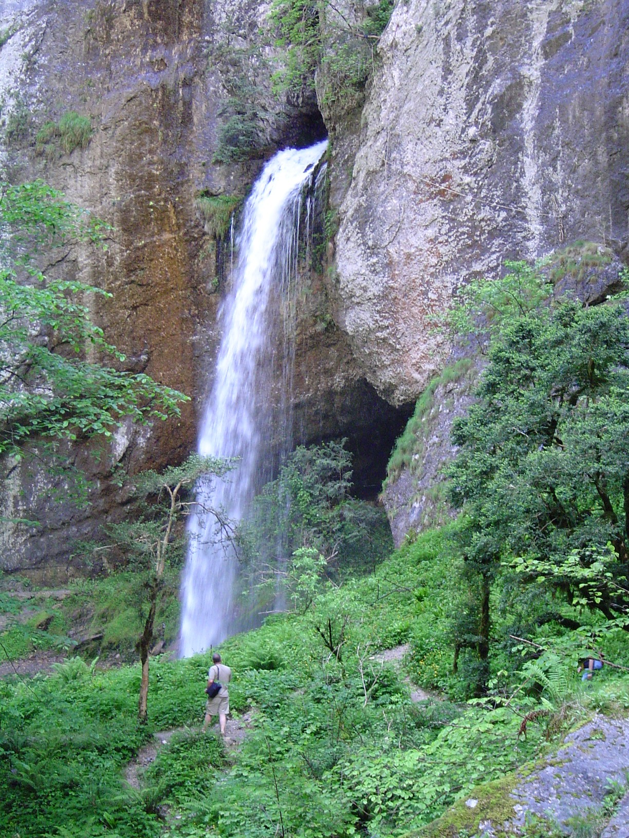 Kakouetta gorges, Sainte-Engrâce, Haute Soule, Northern Basque Country, France